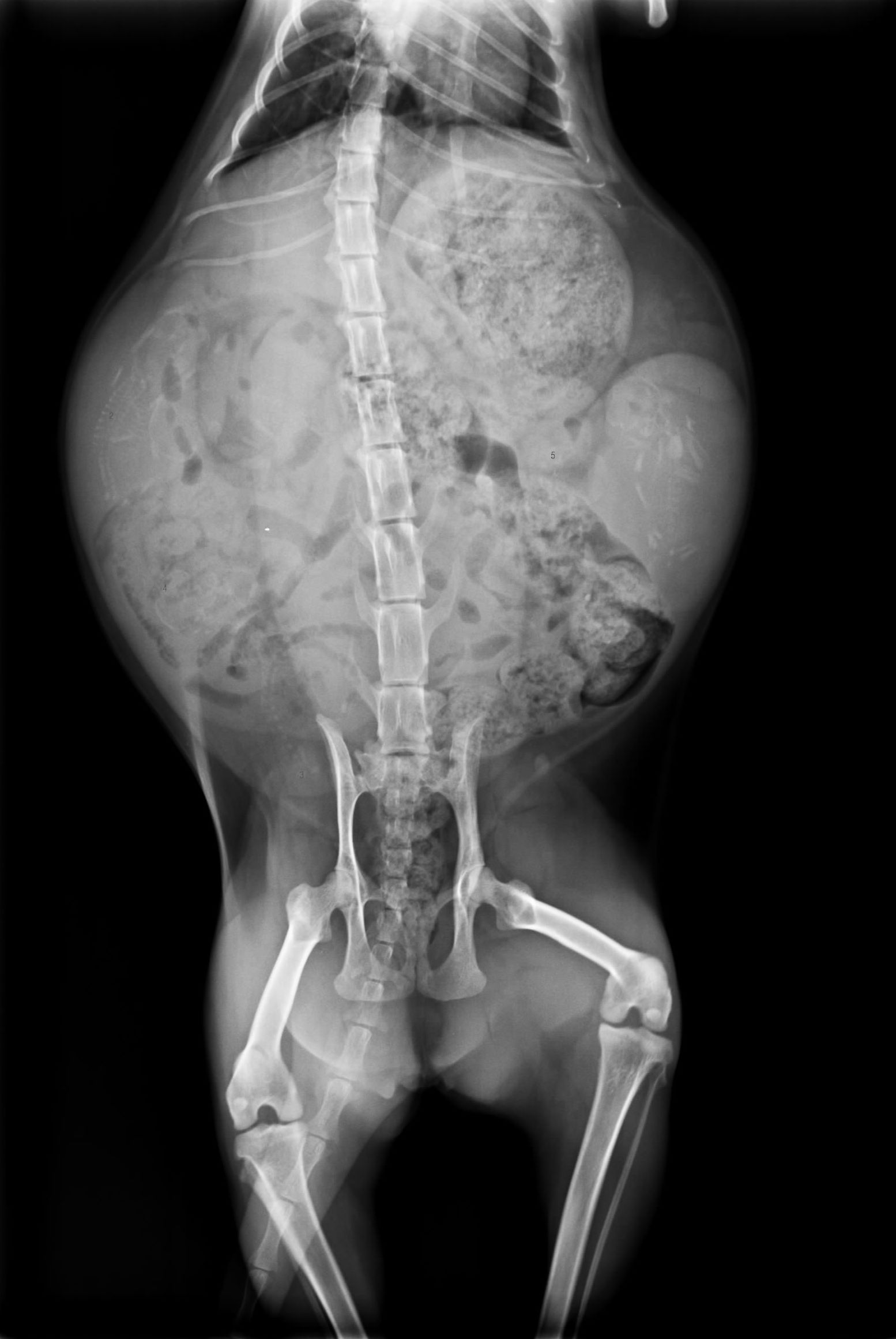 Radiography of a pregnant cat (about one month and a half). The radiography show us five cat foetuses of a similar size.